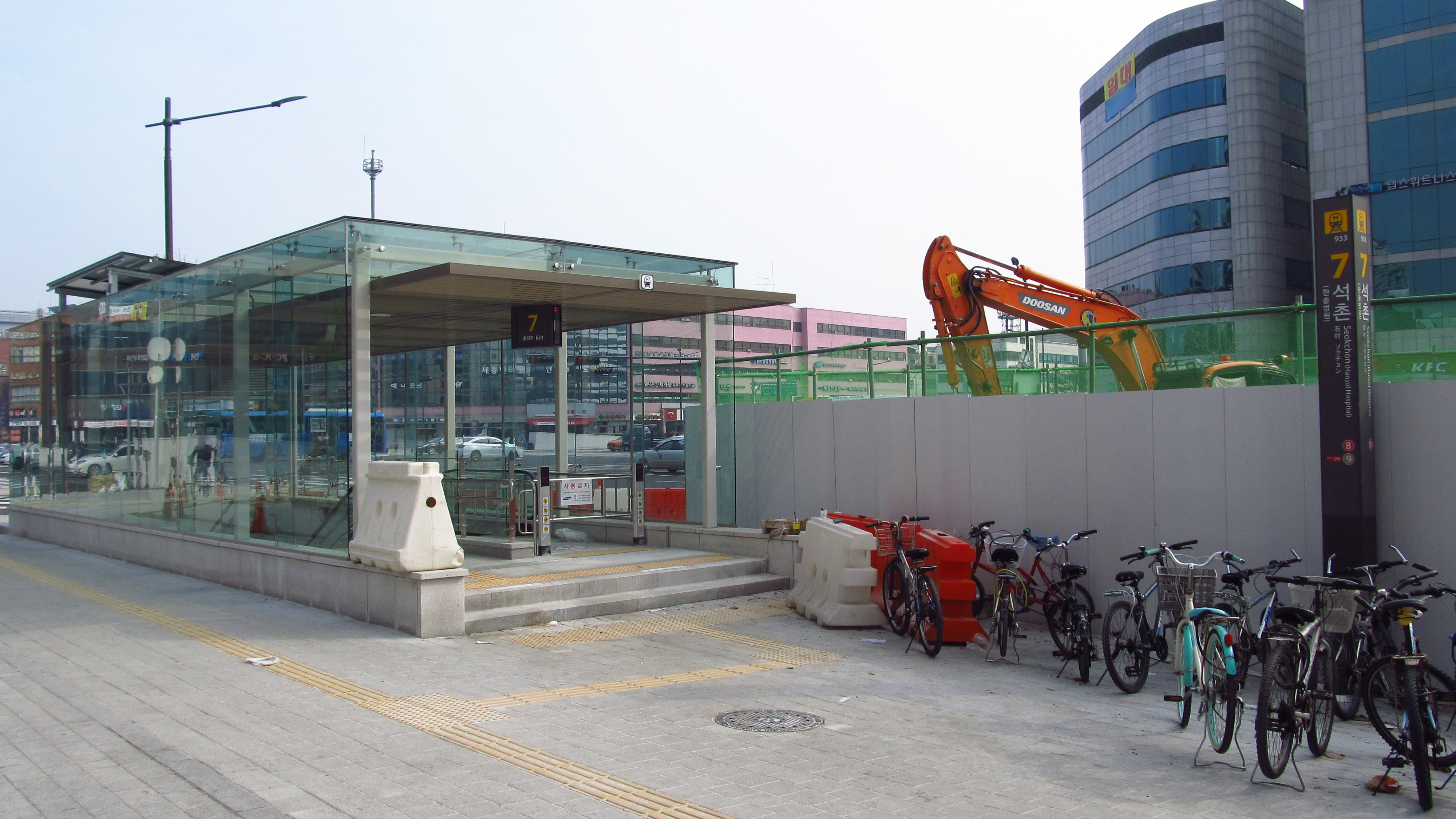 The no.7 entrance to Seokchon Station on Seoul Subway Line 8 in Songpa-gu, Seoul, Republic of Korea(South Korea)